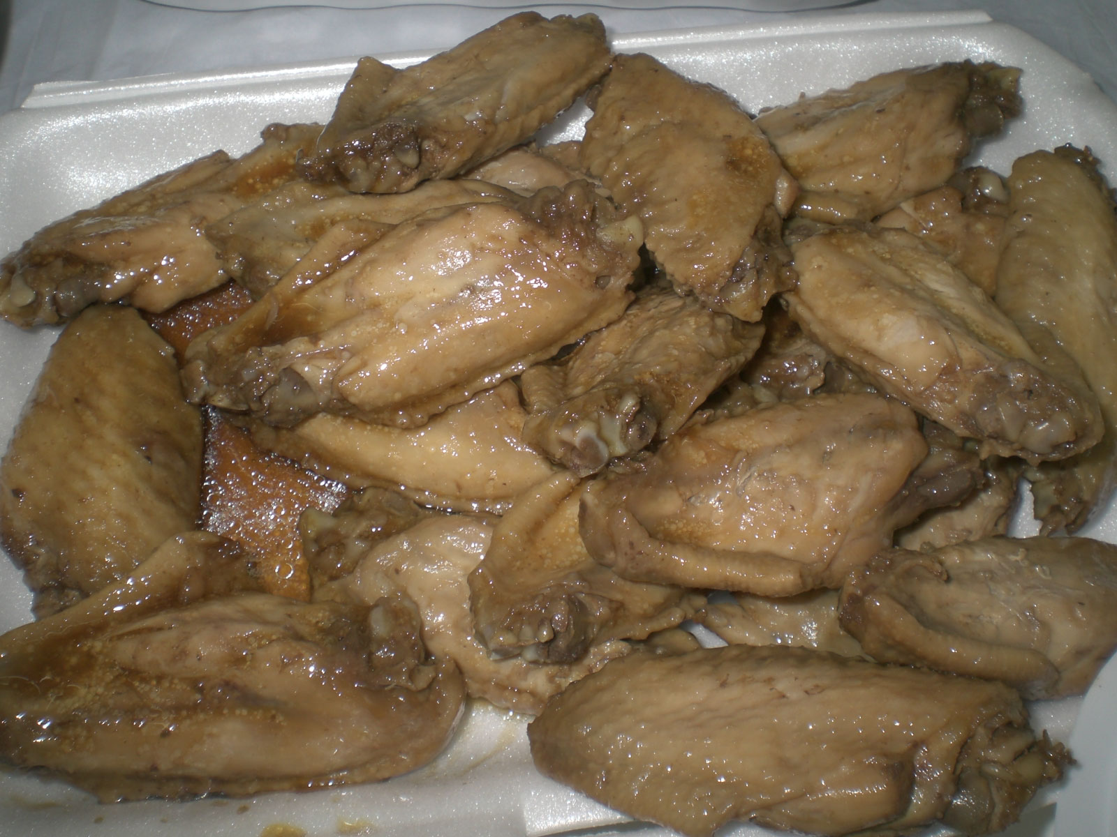 派對食品: 雞翅 Chicken wing